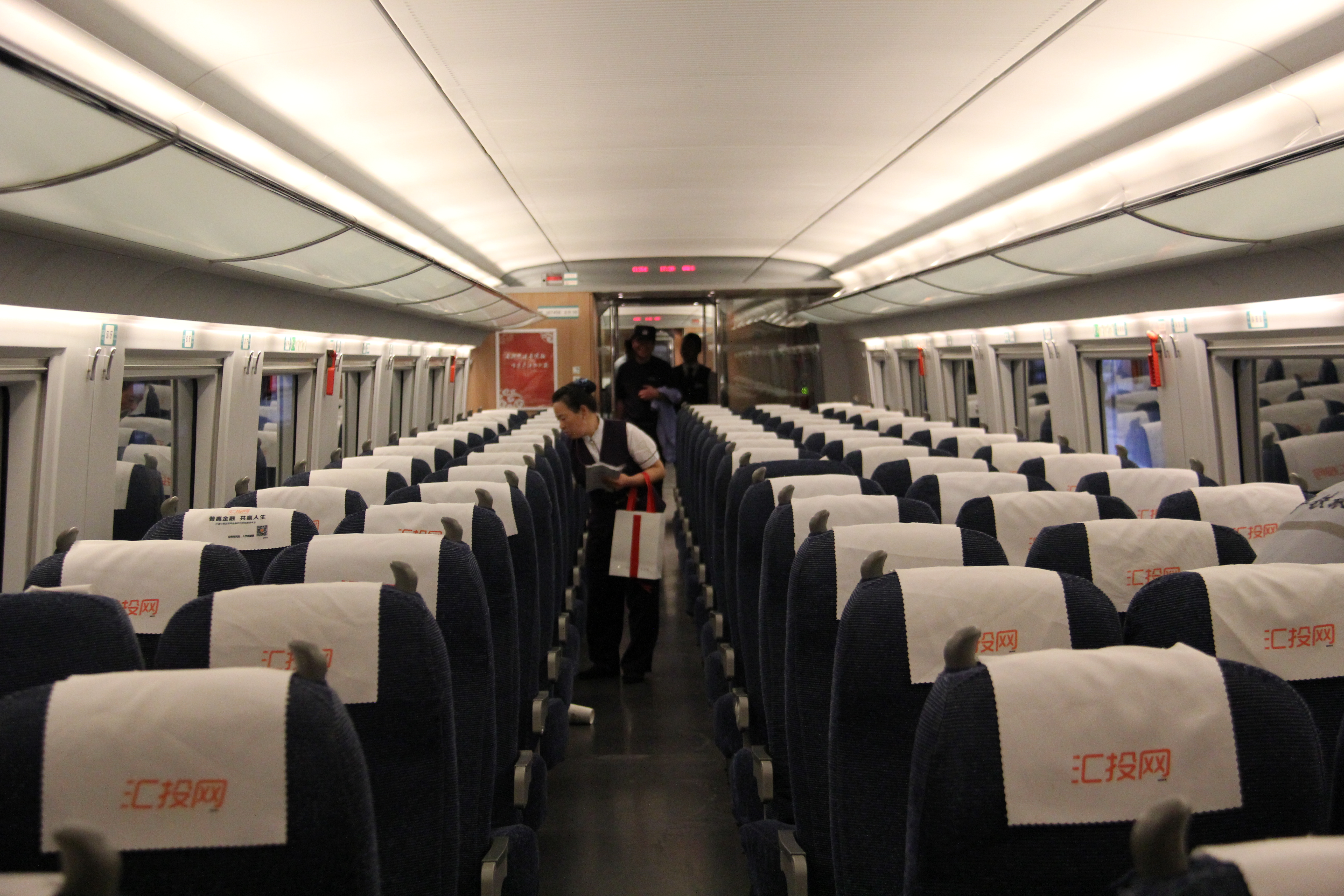 201605 Interior of CRH3C (newly moved to Changshanan EMU Depot) for G1354/5 Second Class